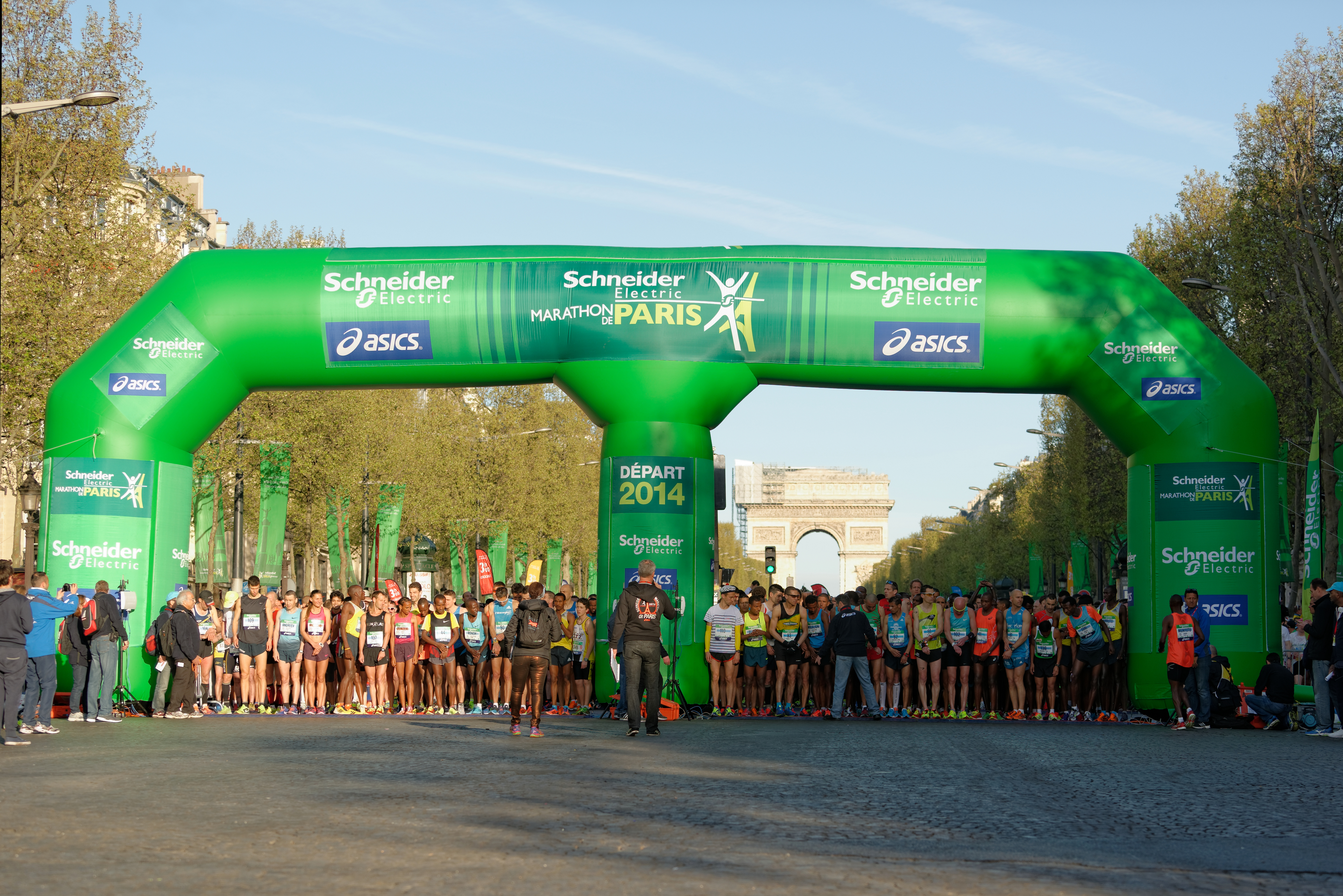 Start line of the 2014 Paris Marathon.